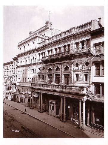 Postcard photo of the Fifth Avenue Theatre in 1899 after rebuilding in 1891.